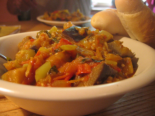 Bowl of ratatouille with French bread